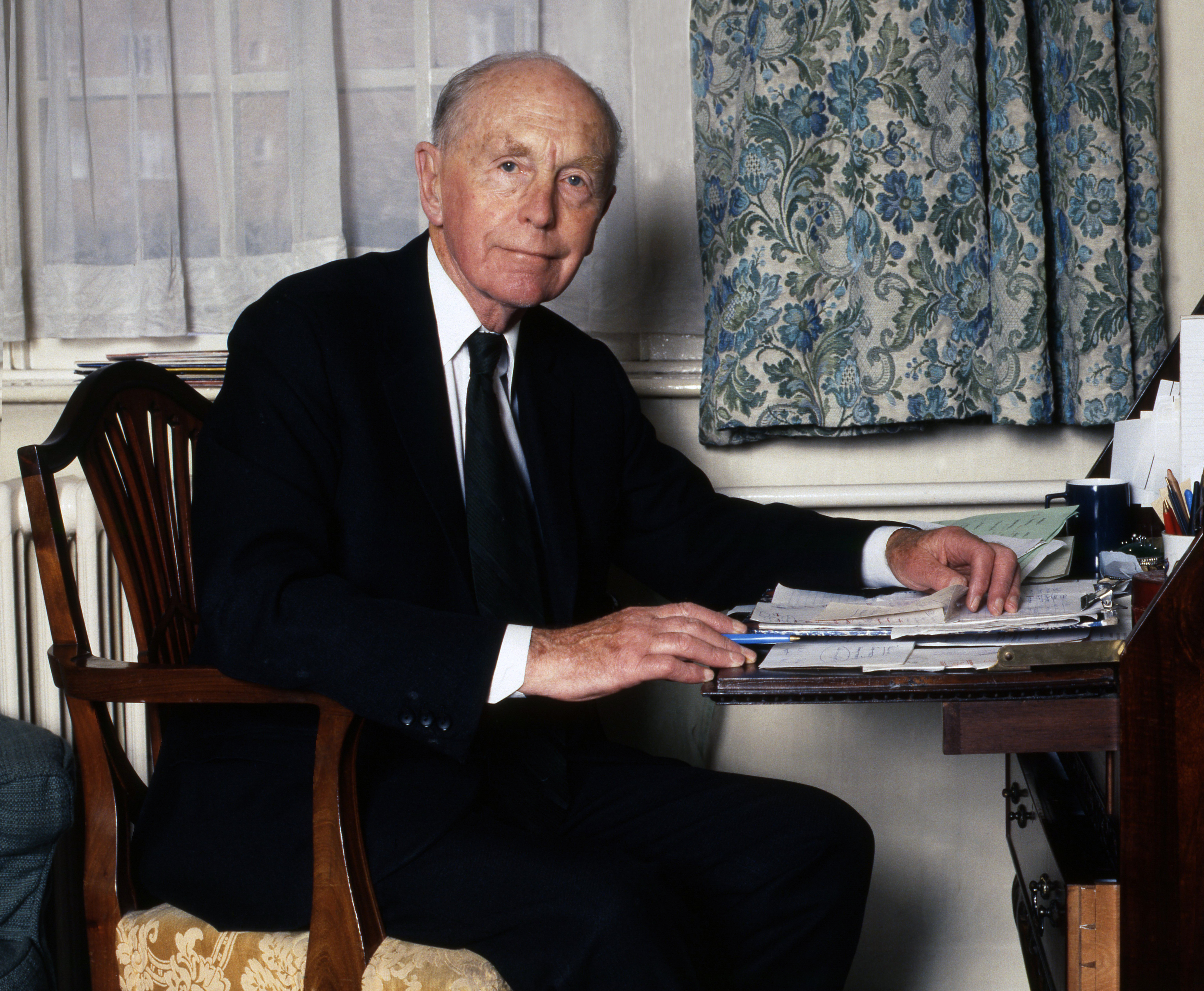 Lord Alec Douglas-Home in his apartment, Westminster, London